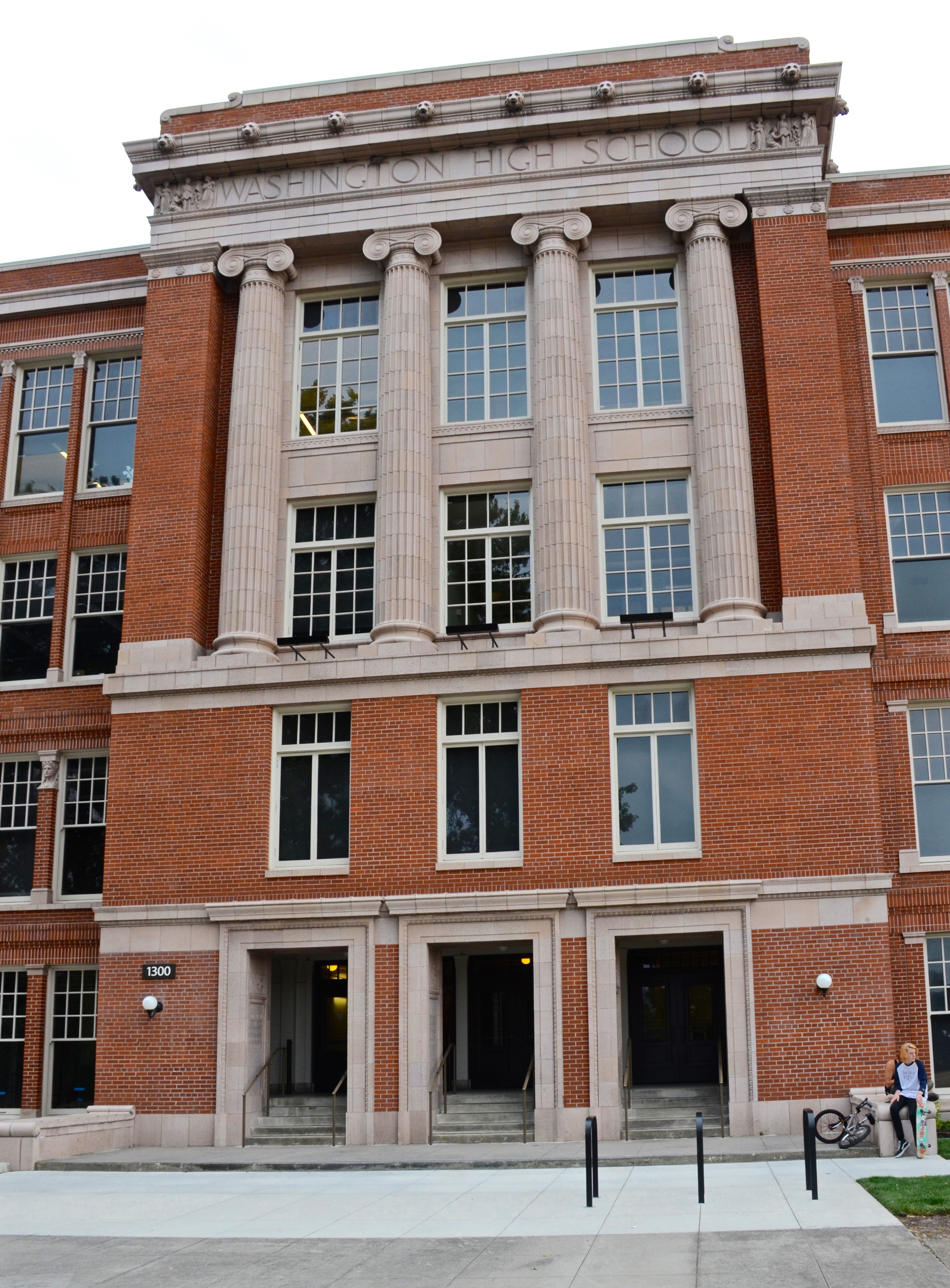 The former Washington High School, in Portland, Oregon, after its 2014-15 renovation. This photo of the front (west side) shows the building's full height in the area around the main entrance. The third and fourth floors in this area feature Ionic columns topped by an entablature displaying the school's name. The high school closed in 1981, and the building sat mostly unused and boarded-up from 2003 until 2014.